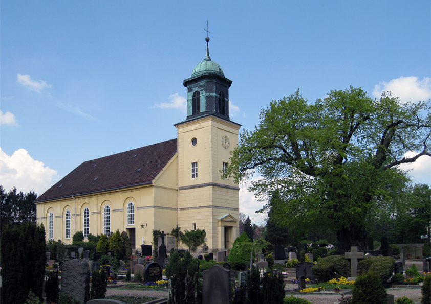 The church Horner Kirche and the 800 years old Horner Linde (linden tree) in Bremen, Germany.